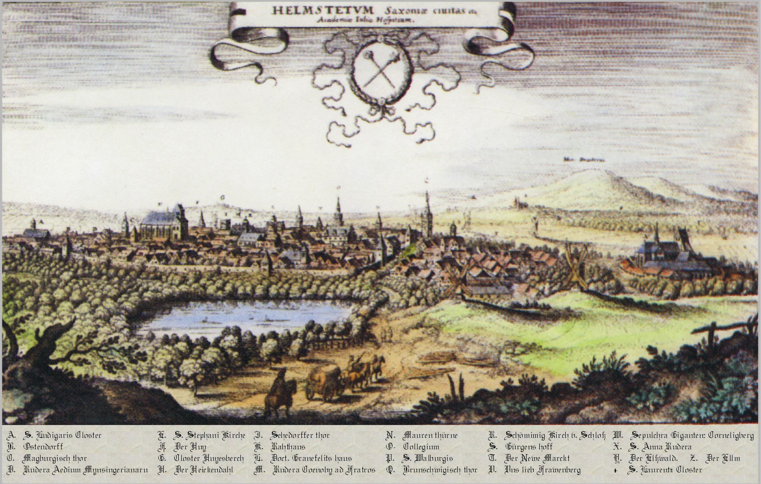 Colored engraving of Helmstedt by Merian in 1641